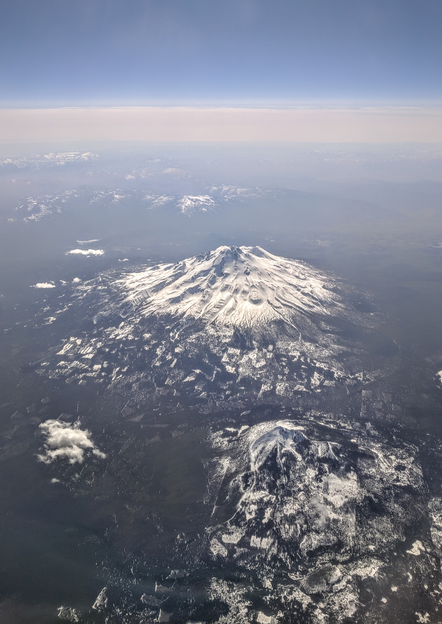 Aerial view of Mount Shasta and vicinity from the east